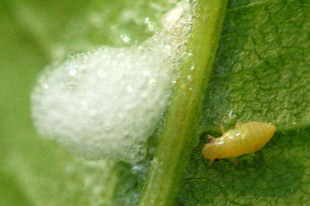 Philaenus spumarius from Commanster, Belgian High Ardennes .